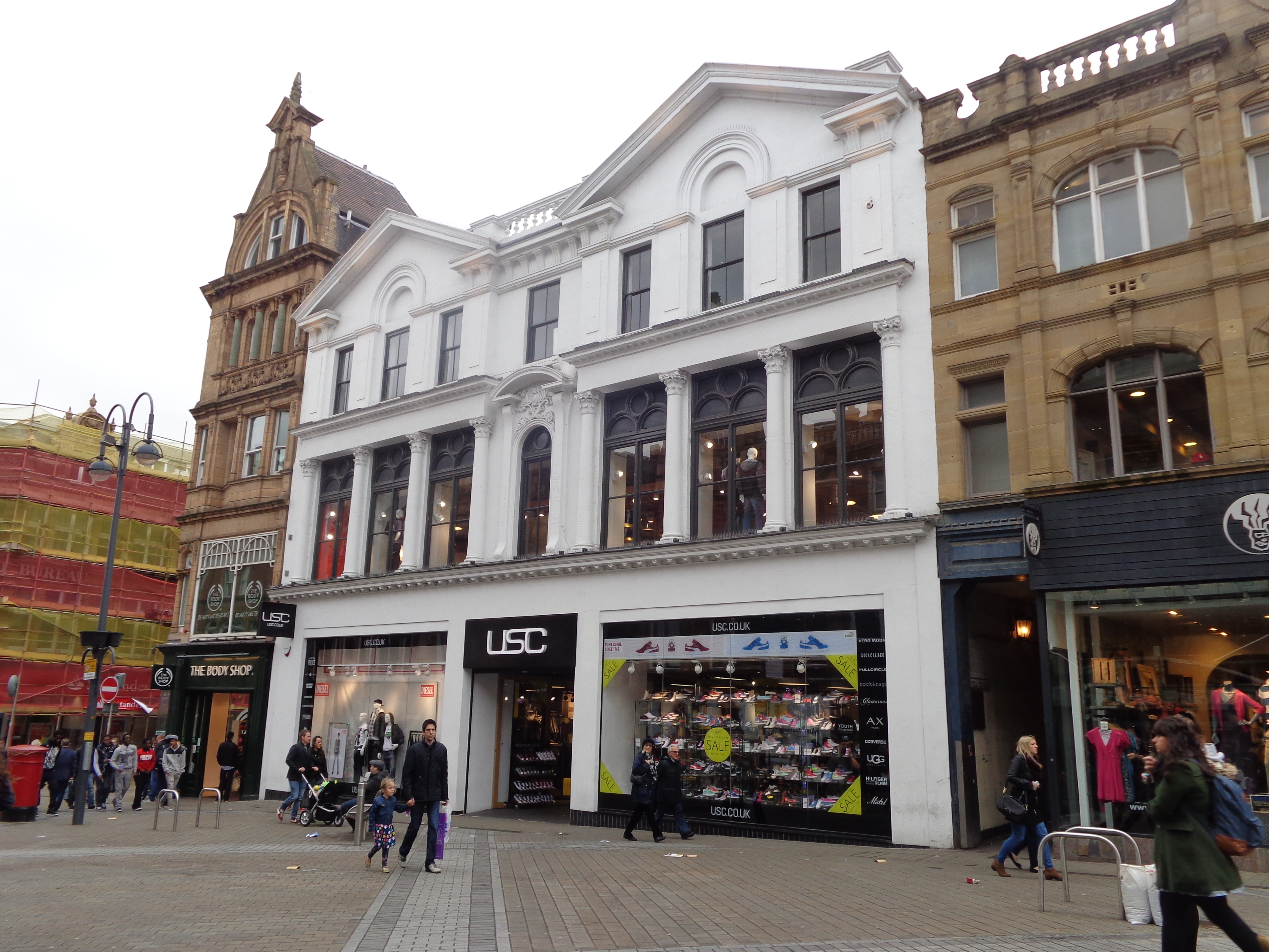 USC, Briggate, Leeds, West Yorkshire. Taken on the afternoon of Saturday the 12th of April 2014.